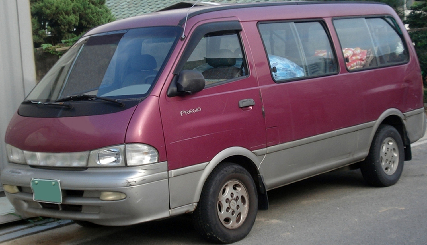 Kia Pregio